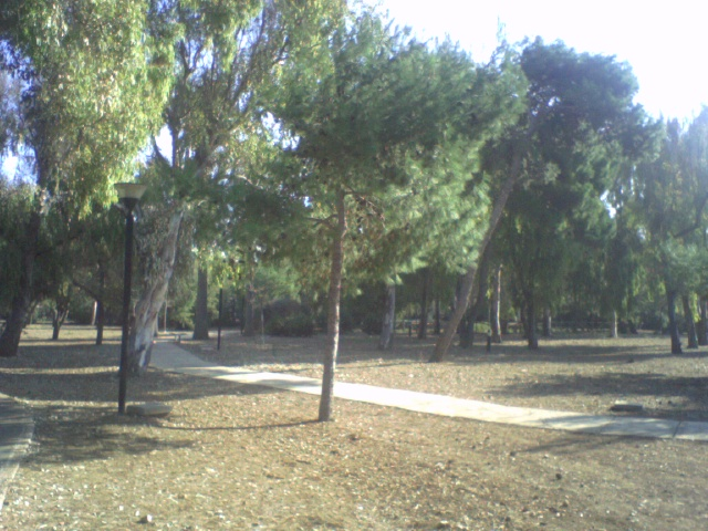 St. Francis Pinewood, Bari